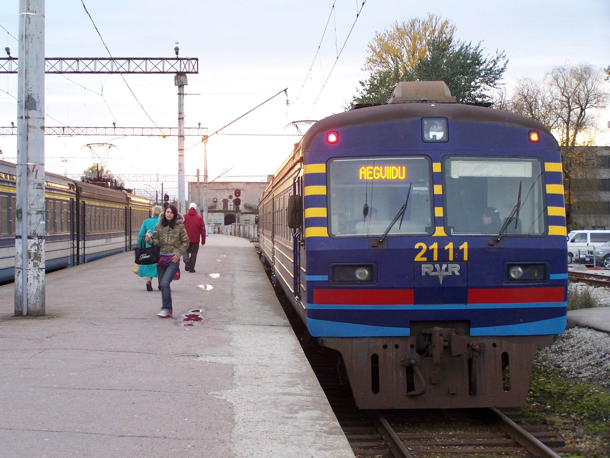 An Elektriraudtee local train to Aegviidu. According to it's the train type ER2T.